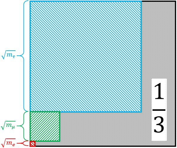 Geometrical interpretation of Koide formula (masses not in scale!)